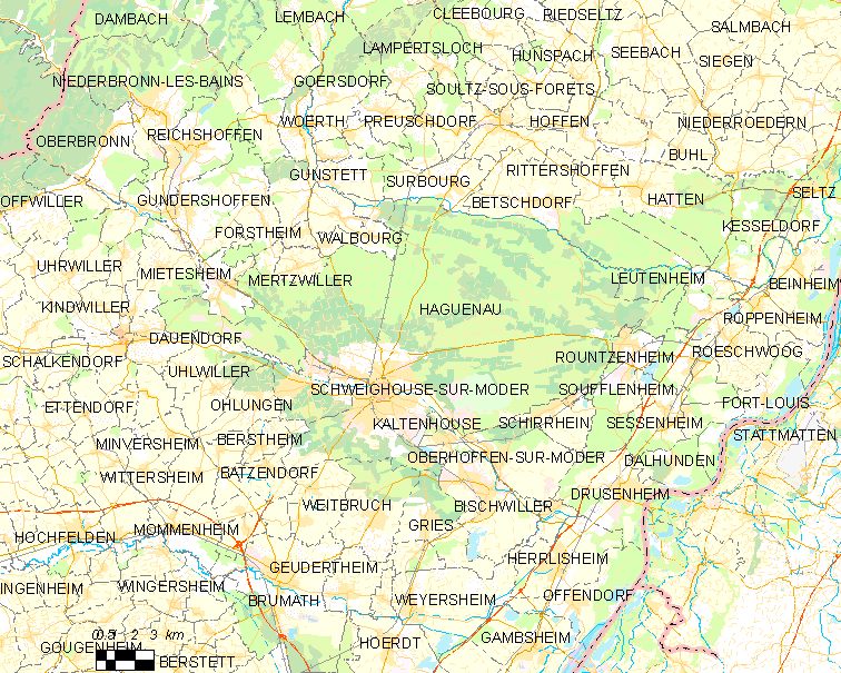 Map of French municipality